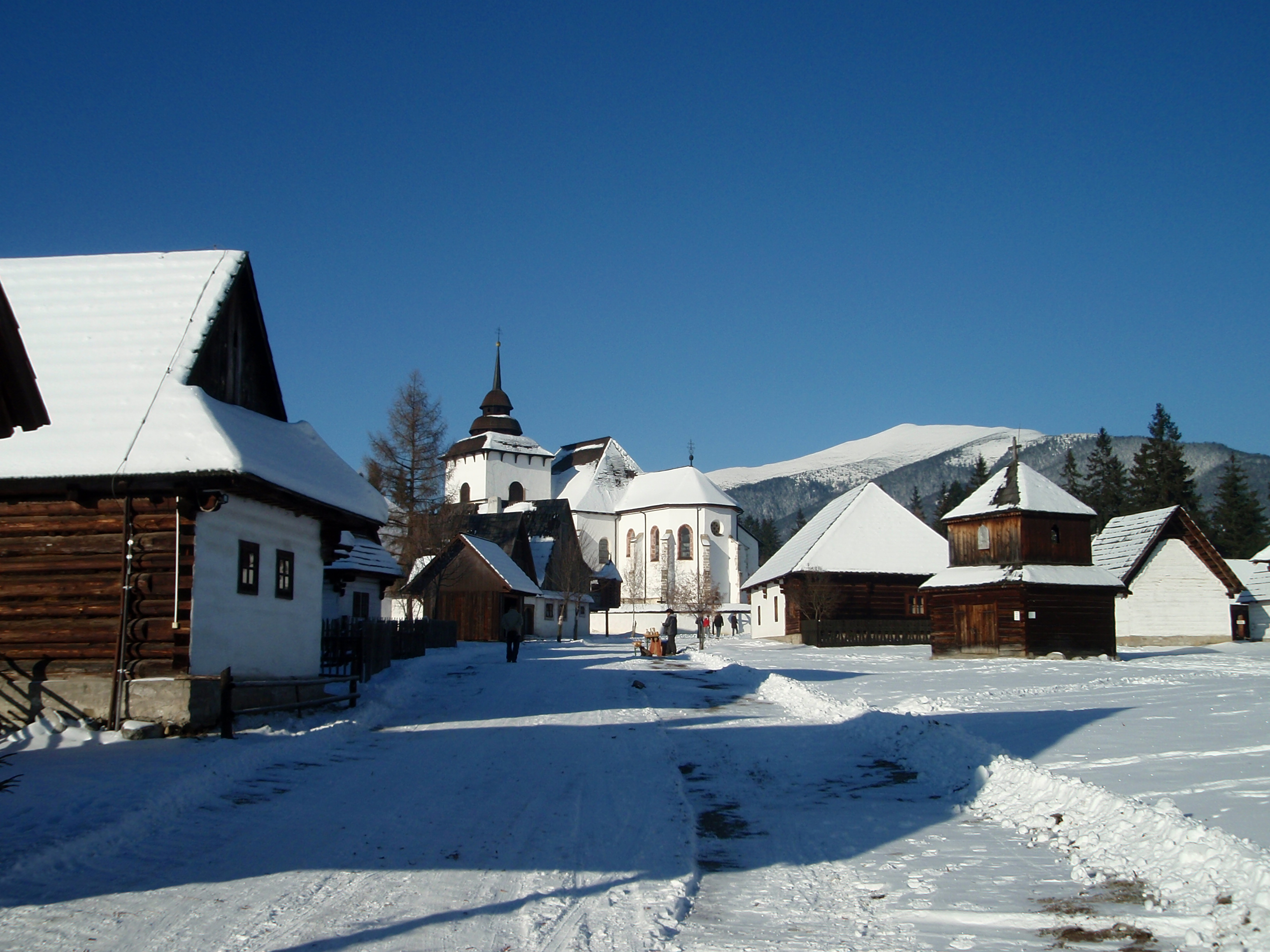 Pribylina - muzeum of slovak village (Liptov region)